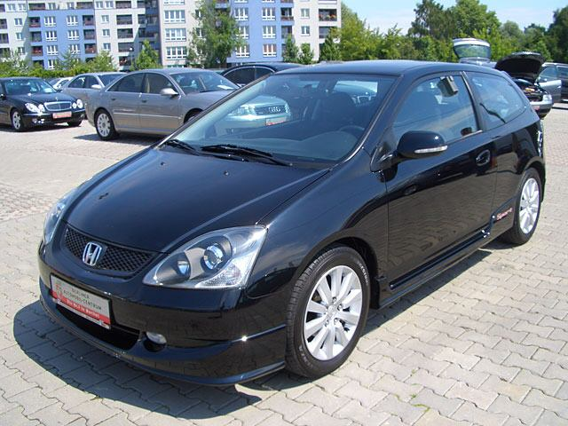 Honda Civic Sport Unlimited